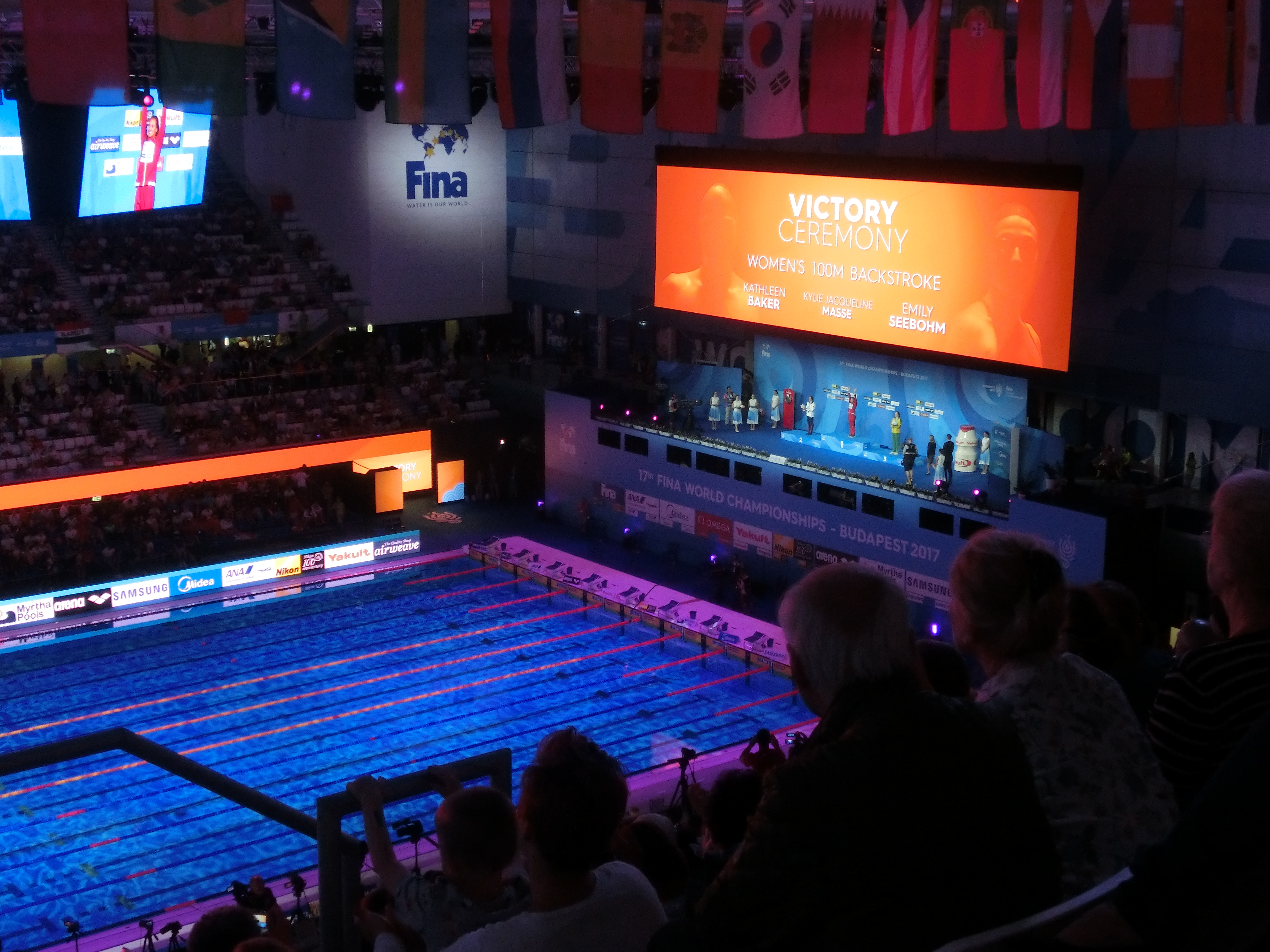 FINA World Championships, Budapest, 2017-07-25, 100m backstroke women's victory ceremony. Gold: Kylie Jacqueline Masse (Canada) Silver: Kathleen Baker (USA) Bronze: Emily Seebohm (Australia)